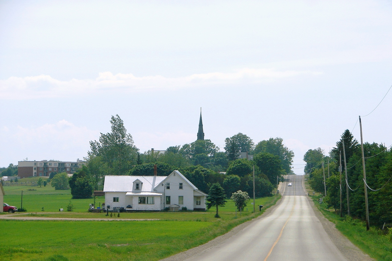 Lafontaine (Township of Tiny), Ontario, Canada